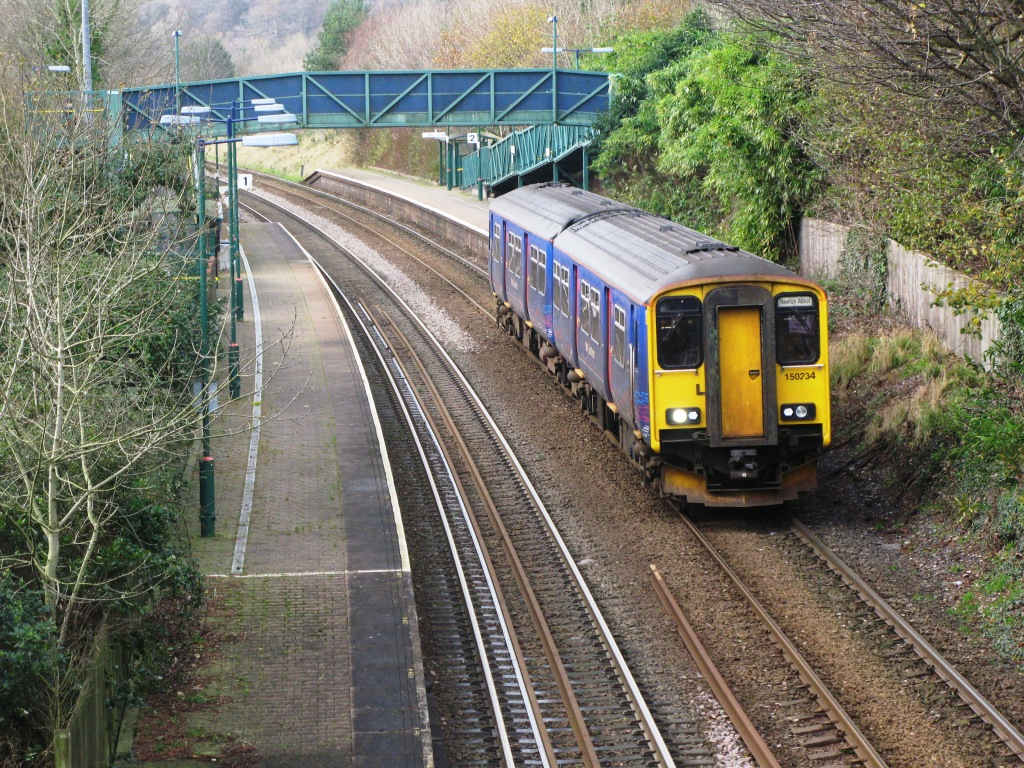 150234 leaves Ivybridge station in Devon with a Plymouth to Newton Abbot service.